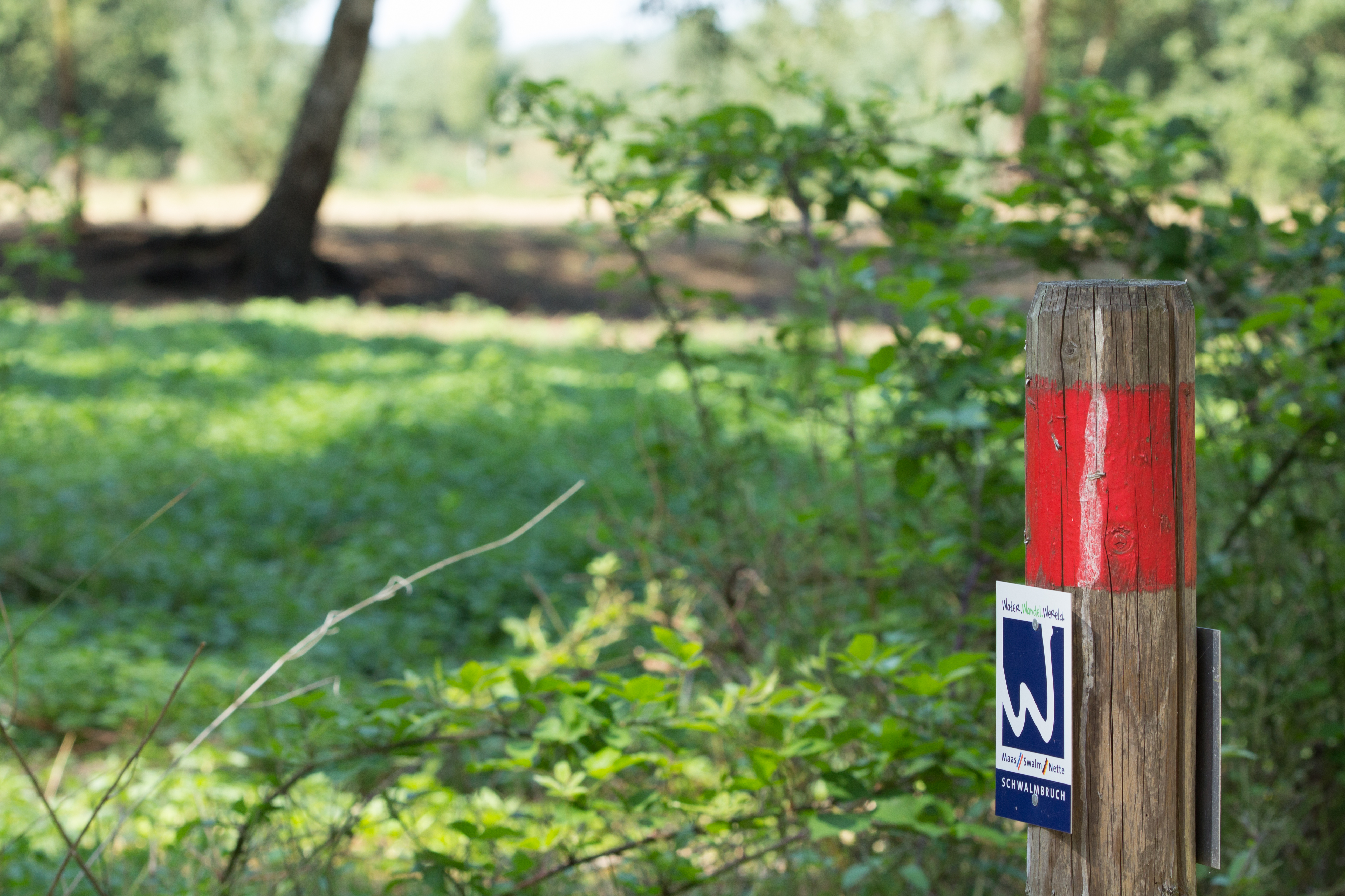 Nature reserve “Elmpter Schwalmbruch“ in Germany, North Rhine-Westphalia